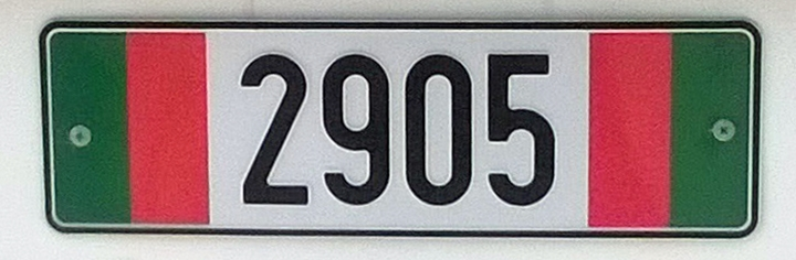 Omani vehicle registration plate for members of the Royal Household